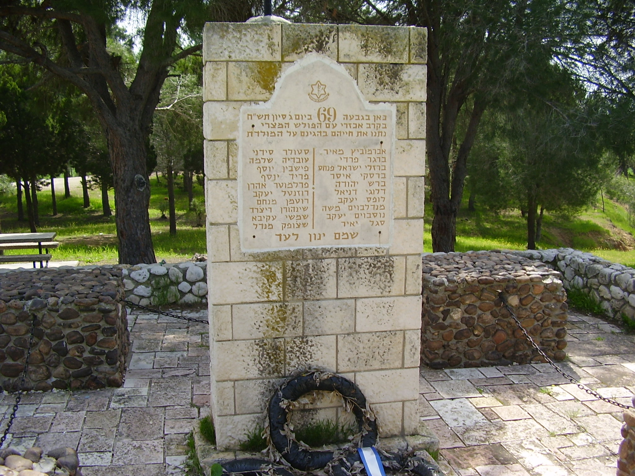 hill 69 memorial, israel